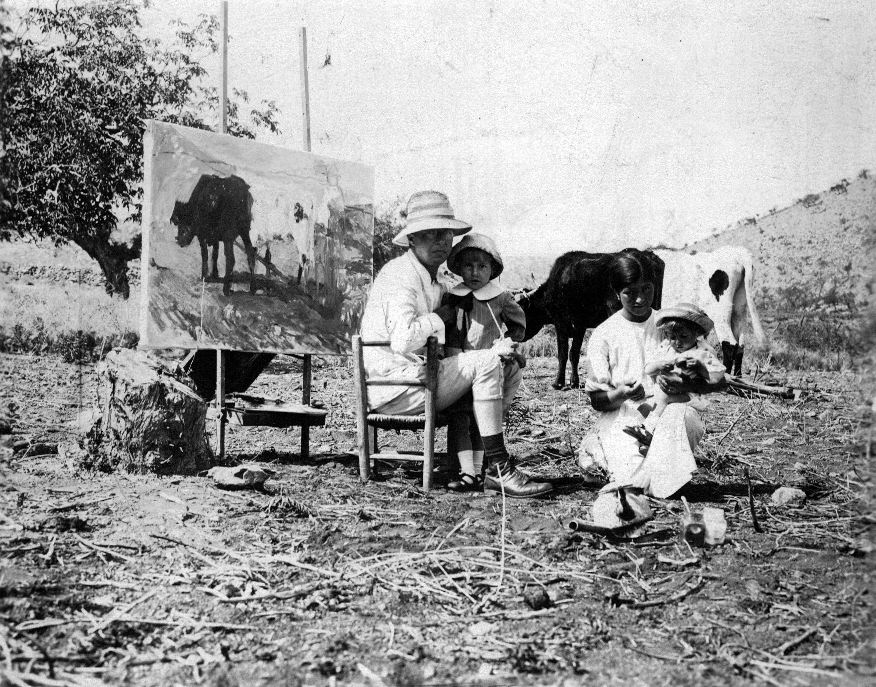 Argentine painter Fernando Fader working outdoors in Córdoba.